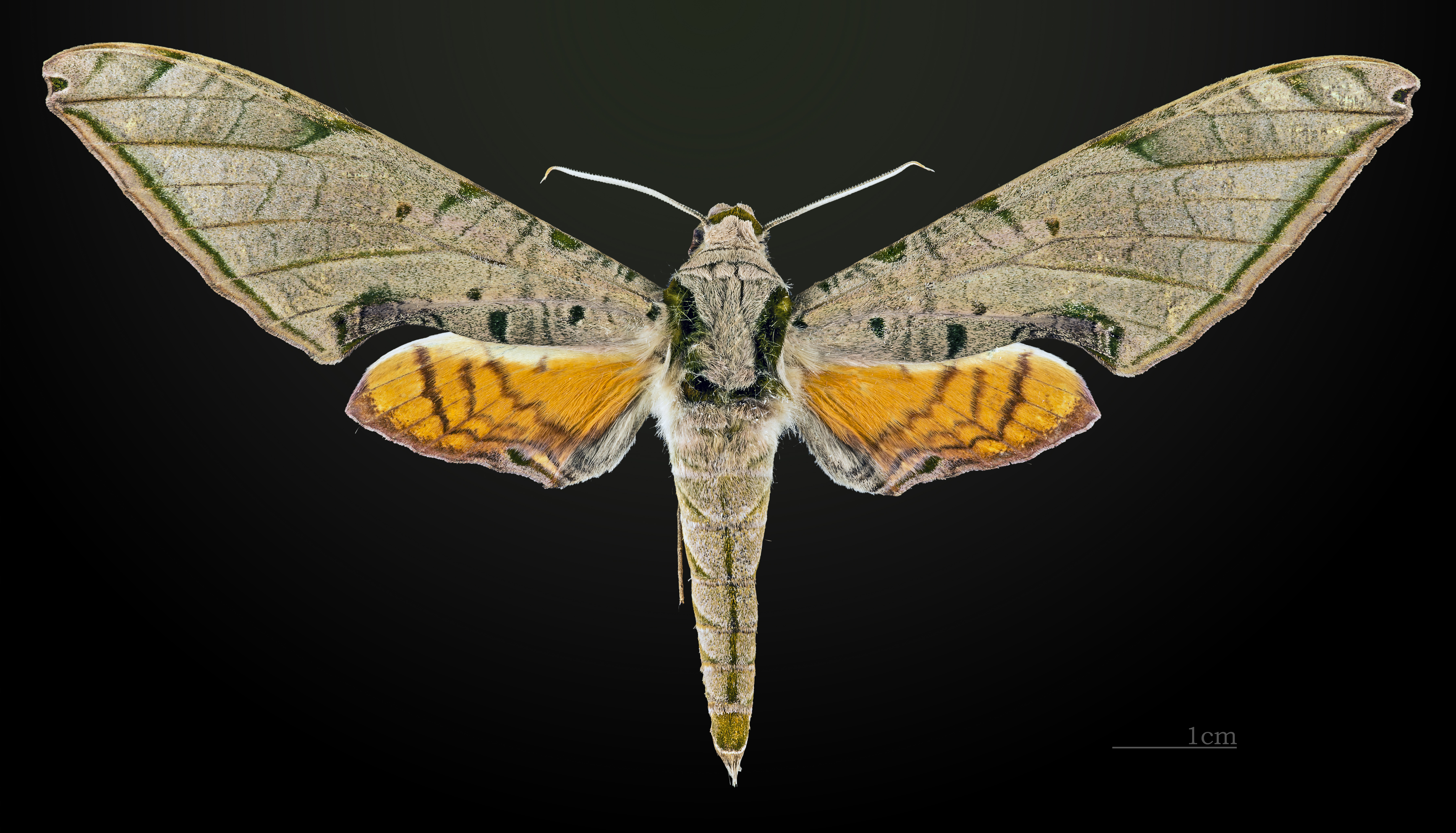 Protambulyx strigilis - Dorsal side Collection of the Mathematician Laurent Schwartz